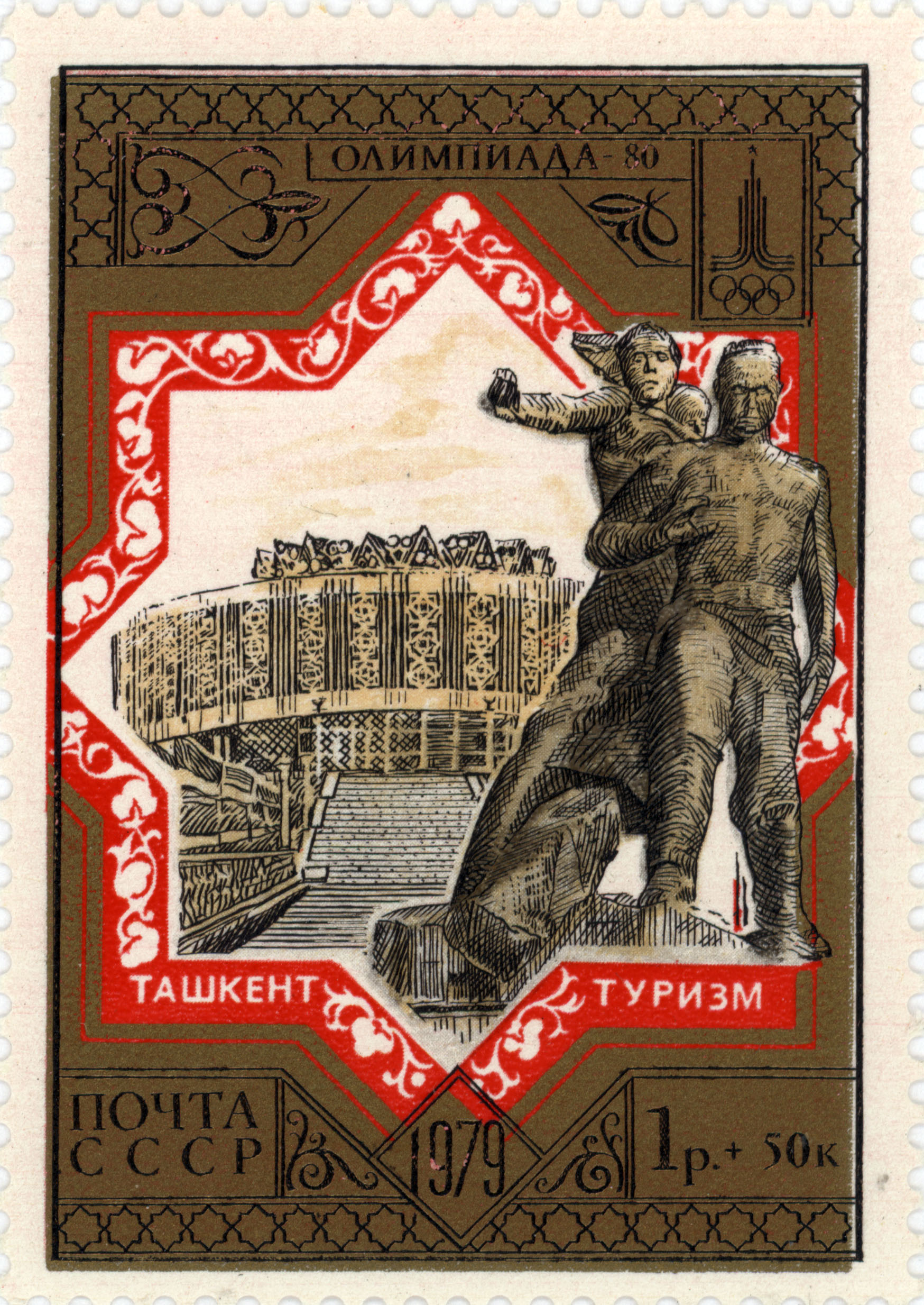 1979 USSR stamp. Tashkent. Courage monument.